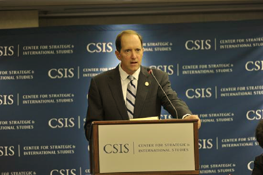 Republican Michigan Representative and Chairman of the House Ways and Means Committee Dave Camp, speaking at the Center for Strategic and International Studies.